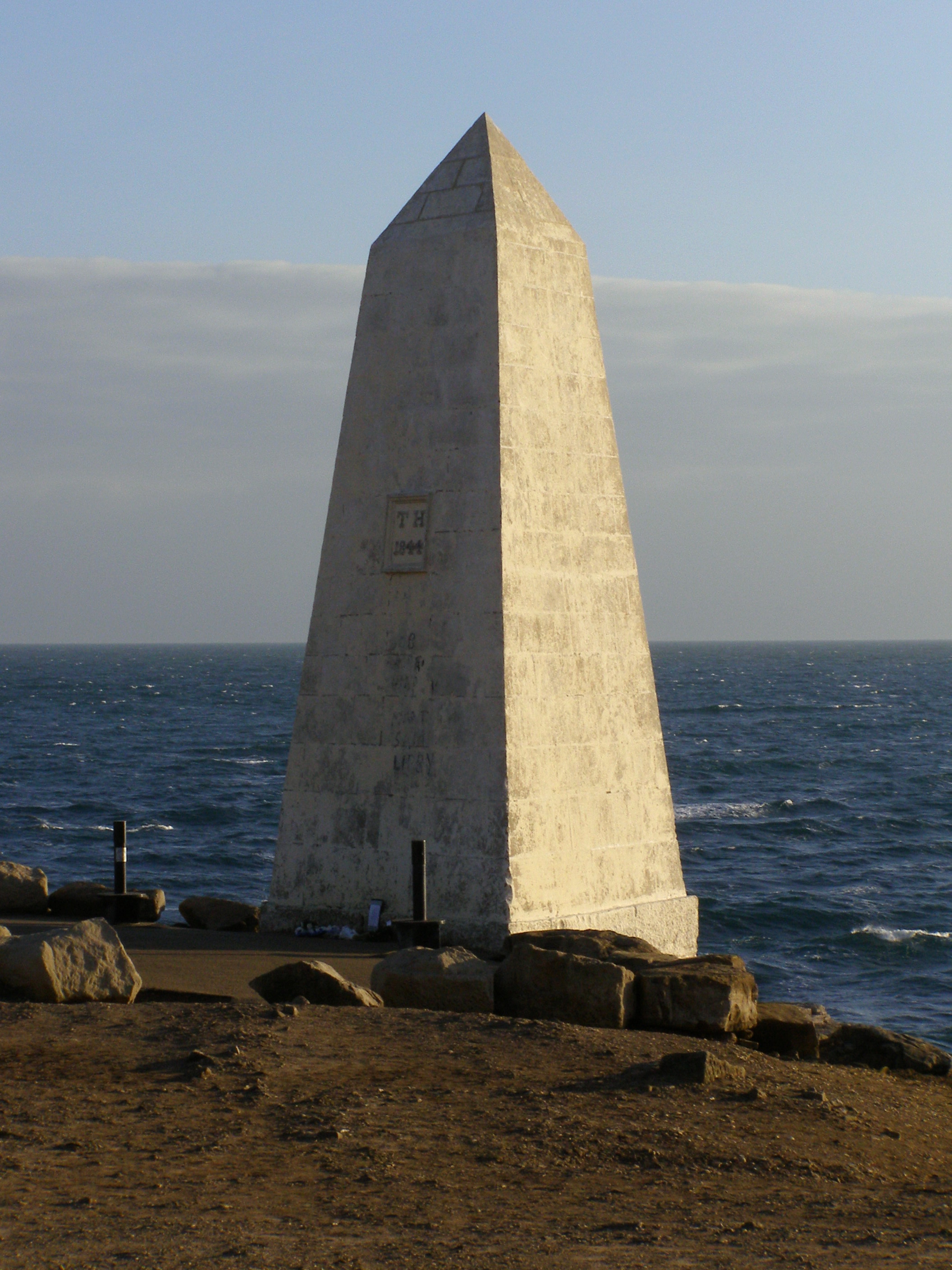 The Trinity House obelisk, Portland Bill, Dorset, U.K.